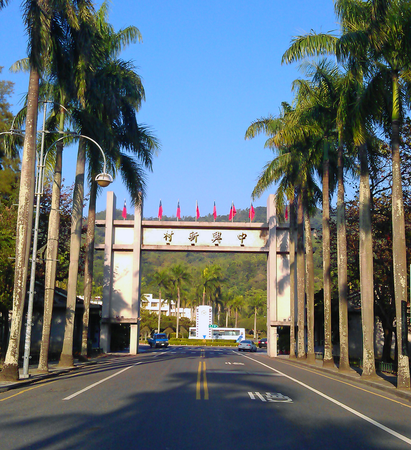 The paifang(牌樓) of the JhongSing Village in Nantou County, Taiwan